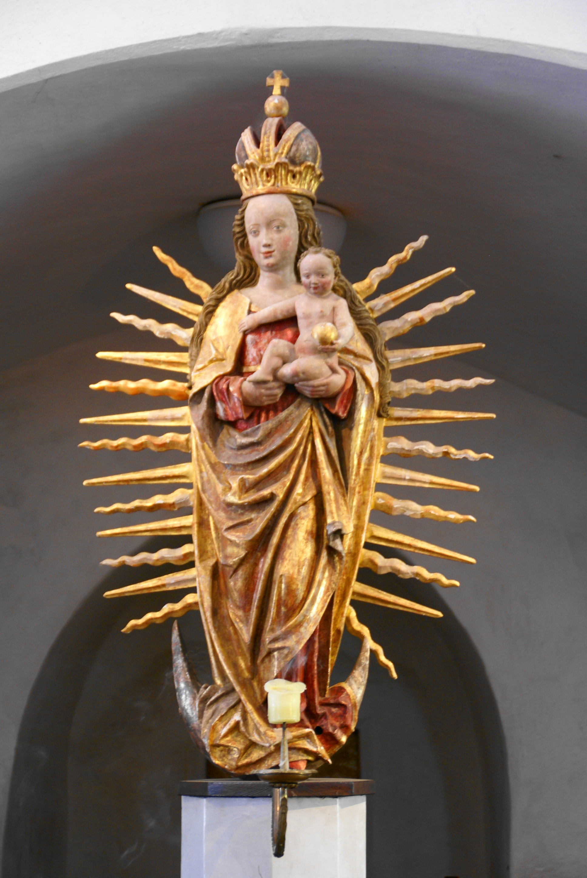 statue double-side madonna with child